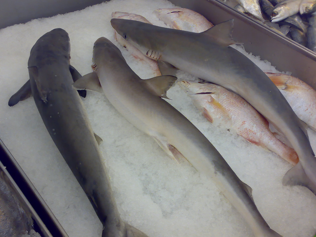 Milk sharks (Rhizoprionodon acutus) at a market in Kuala Lumpur, Malaysia